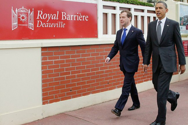 President Dmitry Medvedev with President of the United States Barack Obama.